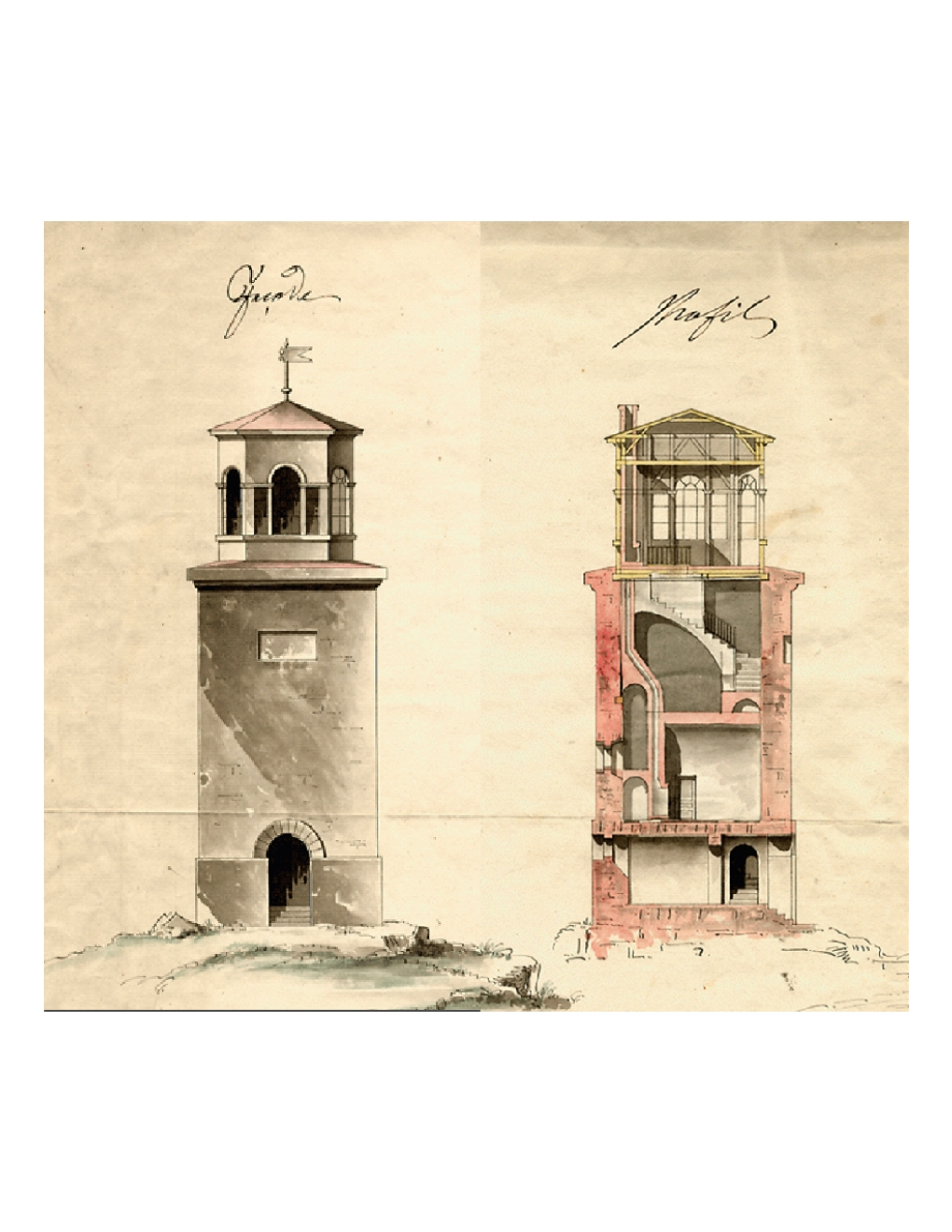 Drawing for a lighthouse on the island Rönnskär in Kirkkonummi in southern Finland